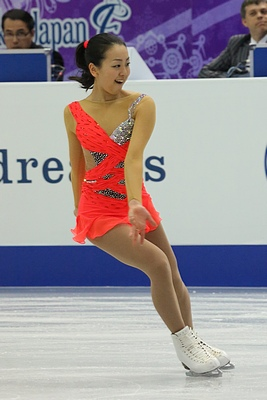 Mao Asada during her short program at the 2013 Four Continents Championships.